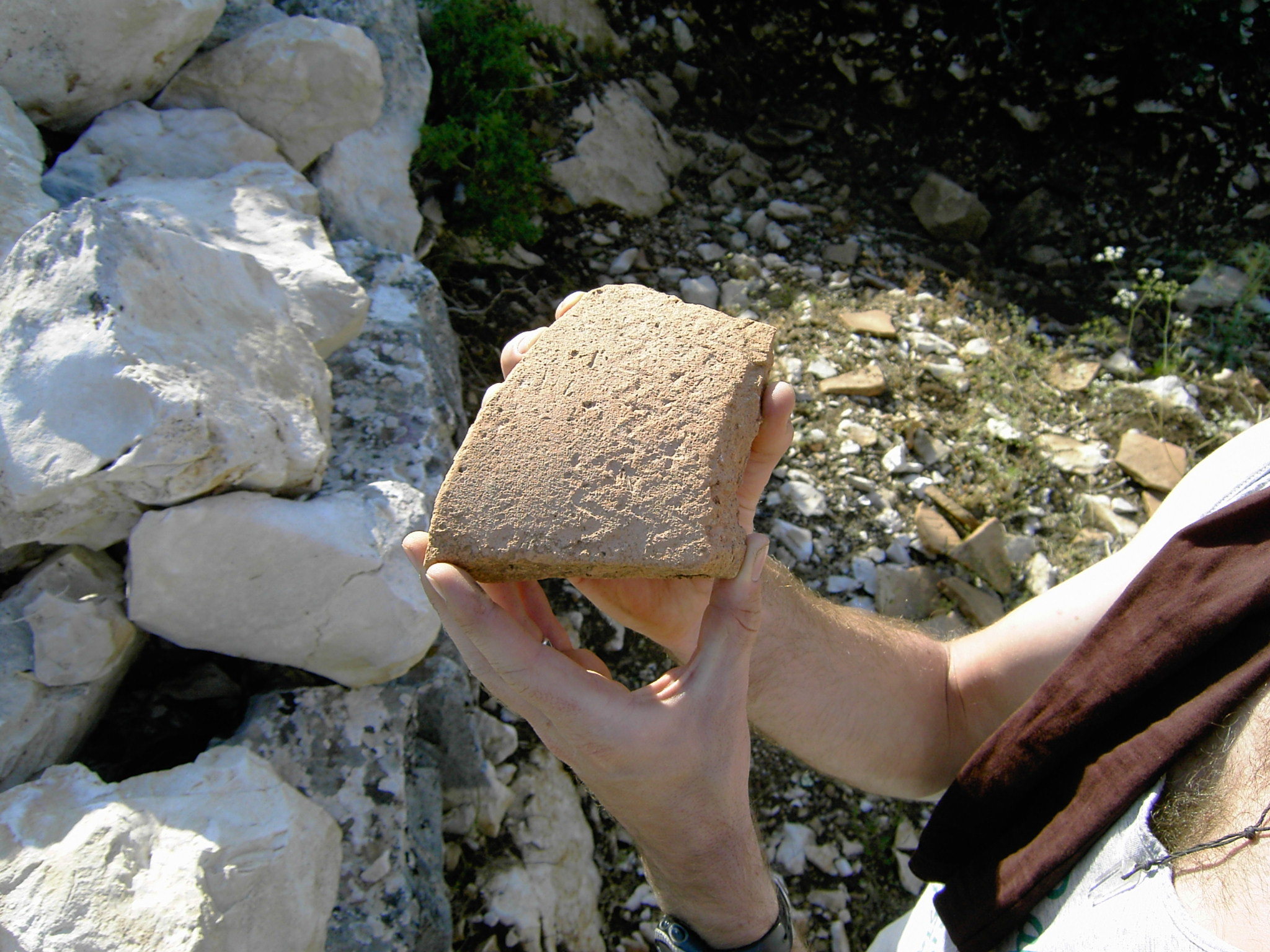 Pieces of pottery found in illegally dug pits by treasure huntersTürkçe: Defineciler tarafından açılmış bir kaçak kazı çukurundaki pişmiş toprak parçasından örnek